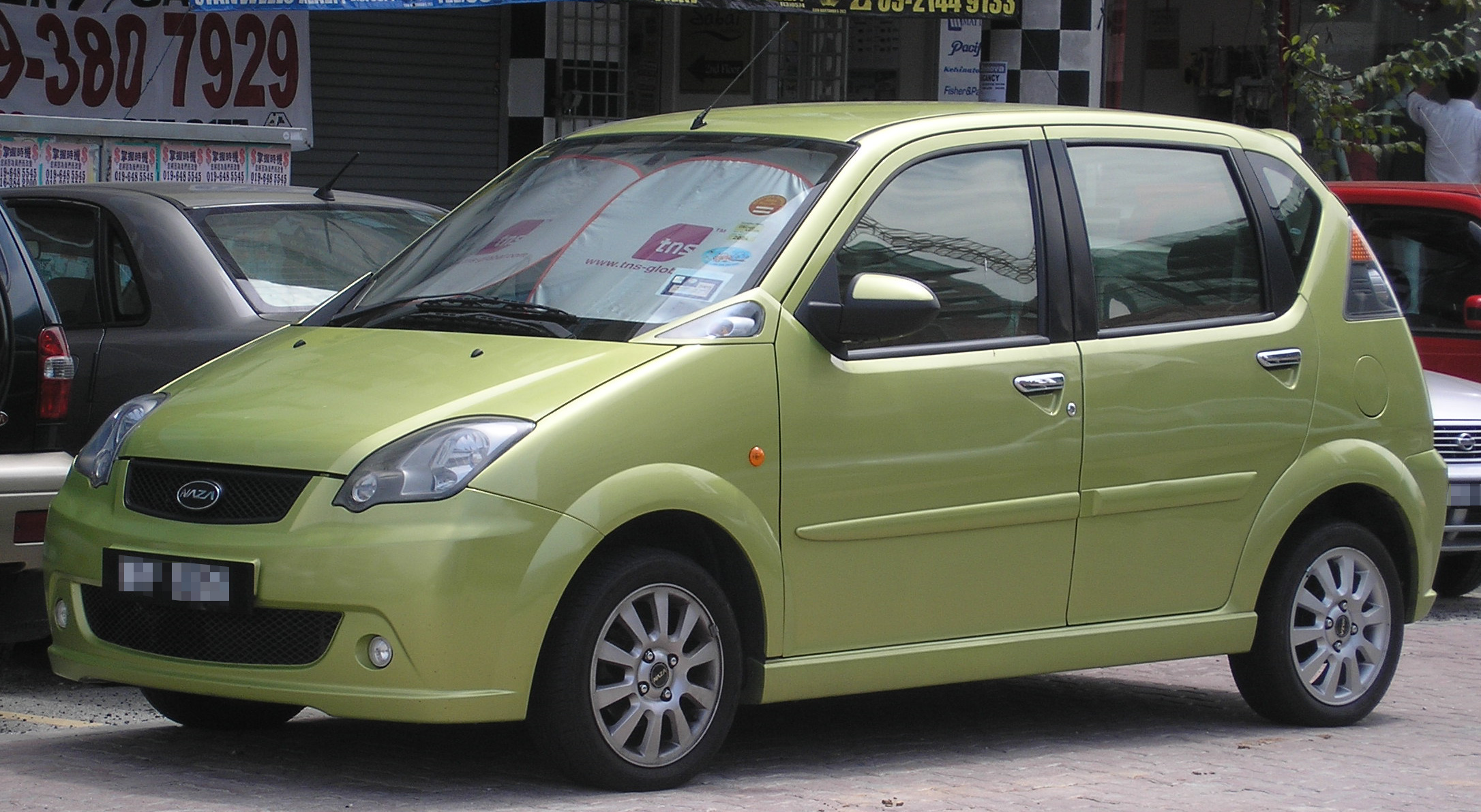 Front quarter view of a first generation Naza Sutera, essentially a rebadged Hafei Lobo, in Serdang, Selangor, Malaysia.